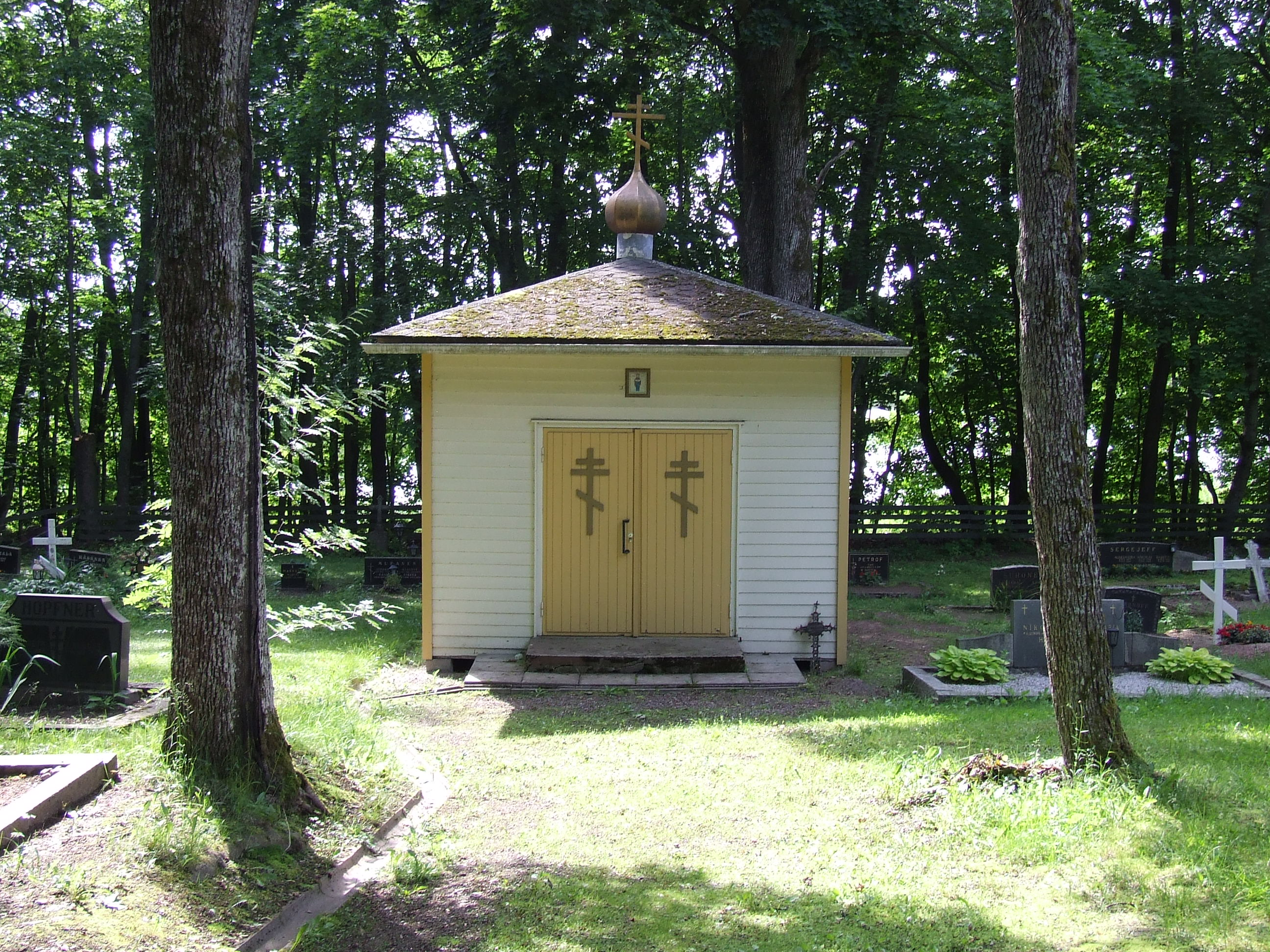 Orthodox cemetery chapel in Kotka, Finland.